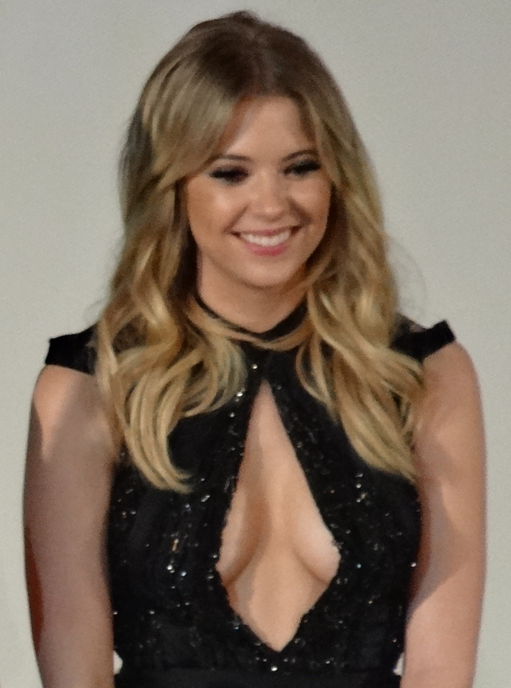 Spring Breakers Cast: Ashley Benson at the AVP Paris Le Grand Rex (February 2013).